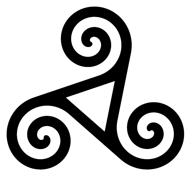 Triple spiral or spiral triskelion symbol with hollow triangle in center. Inspired by various Celtic decorative motifs, but this version is constructed from mathematical Archimedean spirals. For other, versions of the spiral triskelion or triple-spiral symbols, see Image:Triskele-Symbol-spiral-five-thirds-turns.png , Image:Triple-Spiral-Symbol-filled.png , Image:Triple-Spiral-Symbol-4turns-filled.png , Image:Triskele-Symbol-spiral.png , or Image:Triple-Spiral-Symbol.png . For "wheeled" forms of the triple-spiral, see Image:Wheeled-Triskelion-basic.png , Image:Roissy triskelion iron ring signet.png , Image:Triple-spiral-wheeled-simple.png , or Image:Triskelion-spiral-threespoked-inspiral.png . For versions of a triple-spiral labyrinth, see Image:Triple-Spiral-labyrinth.png and Image:Triple-Spiral-labyrinth-variant.png .